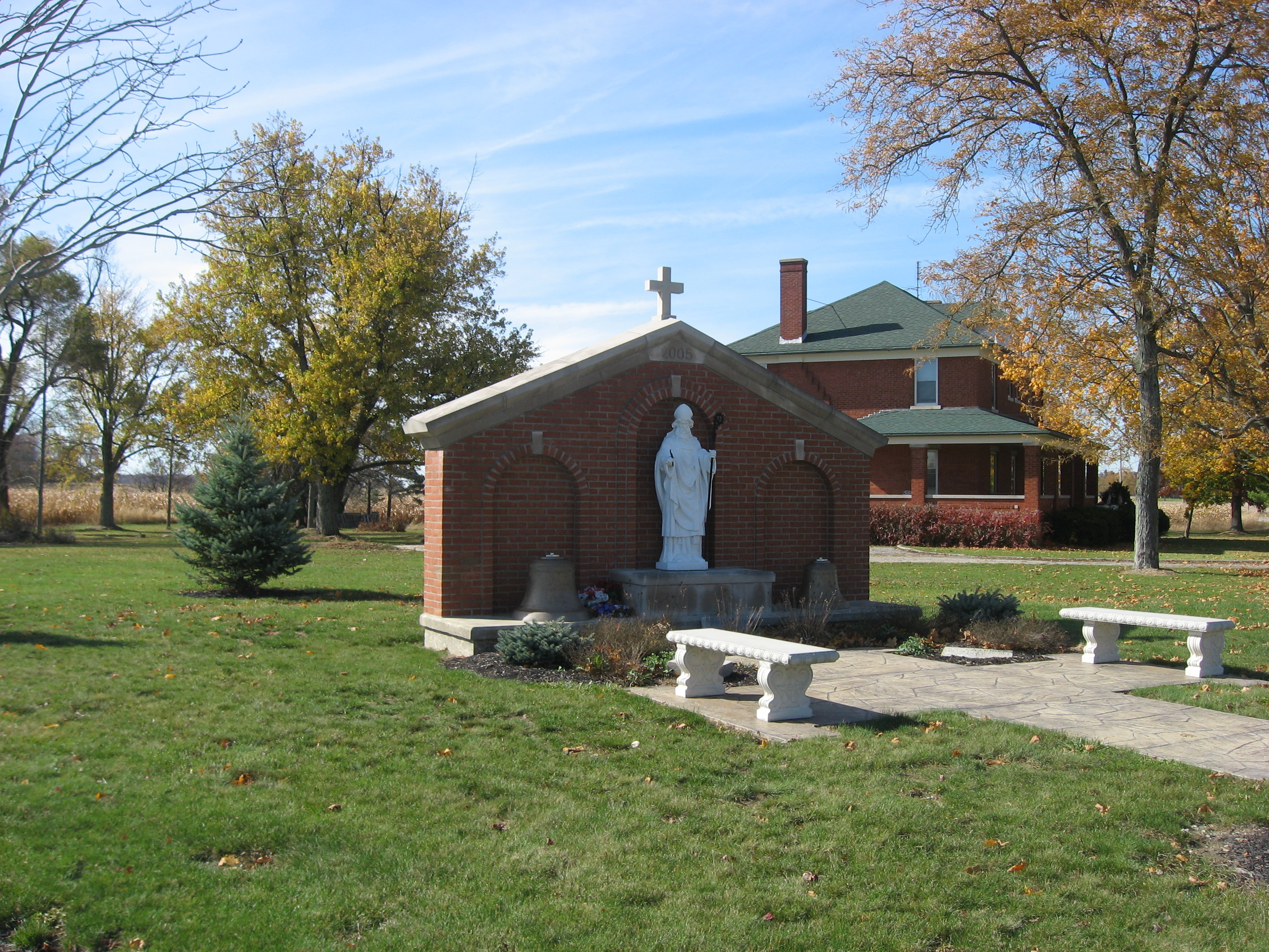 Site of the former St. Patrick Catholic Church, located at the junction of Hoying and Wright-Puthoff Roads in St. Patrick, an unincorporated community in Van Buren Township, Shelby County, Ohio, United States. Built in 1915 and demolished in 2001, the church and its nearby rectory (visible in the background) were added together to the National Register of Historic Places as a part of the Cross-Tipped Churches of Ohio Thematic Resources. The church remains on the Register, despite having been destroyed.